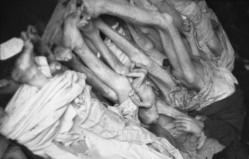 Warsaw Ghetto